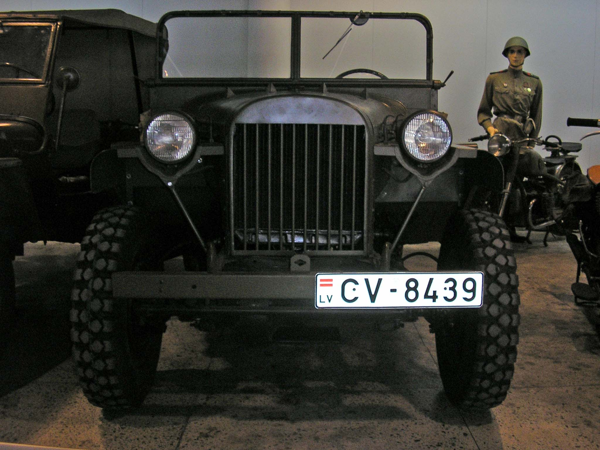 A 1941 GAZ-64. The first all-terrain vehicle made in the Soviet Union. Only 646 GAZ-64 were made between autumn 1941 and summer 1942. It was succeded by the more popular GAZ-67 and GAZ-67B. This vehicle is from a prototype run and restoed by AAK member K. Kriebergs. Total weight is 1200 kg. It is powered by a 3285 cc, inline-4 engine giving 50 hp and a top speed of 100 km/h.